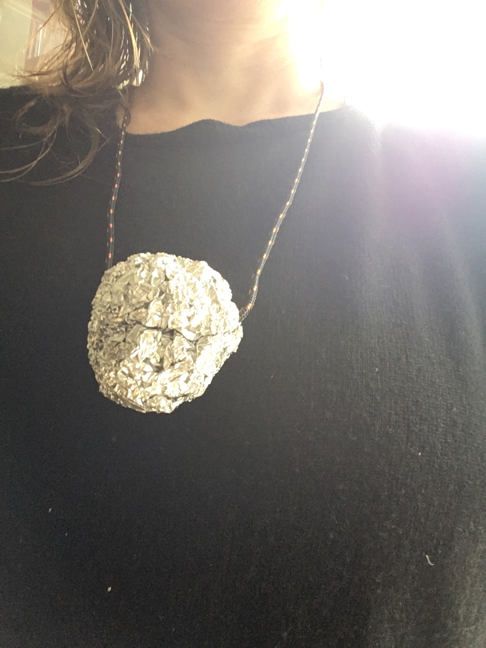 Symbol used by Corona sceptical protesters made of tinfoil and ribbon